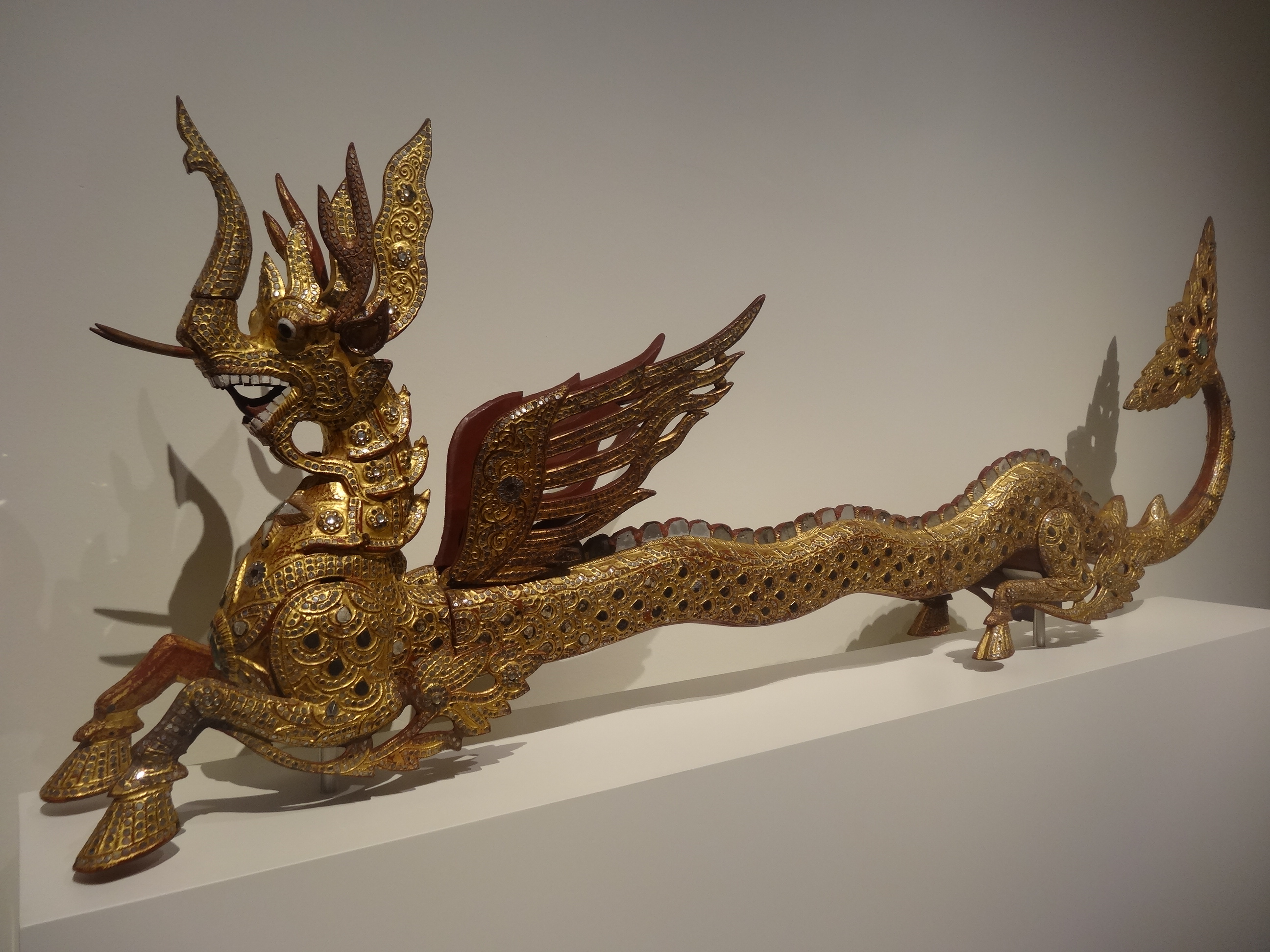 Museu de Cultures del Món, Barcelona. Gong stand.